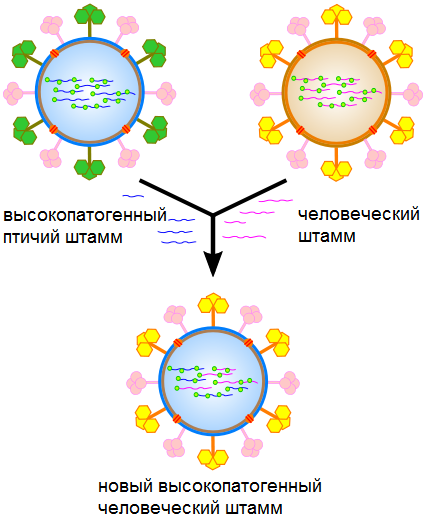 Influenza geneticshift in russian